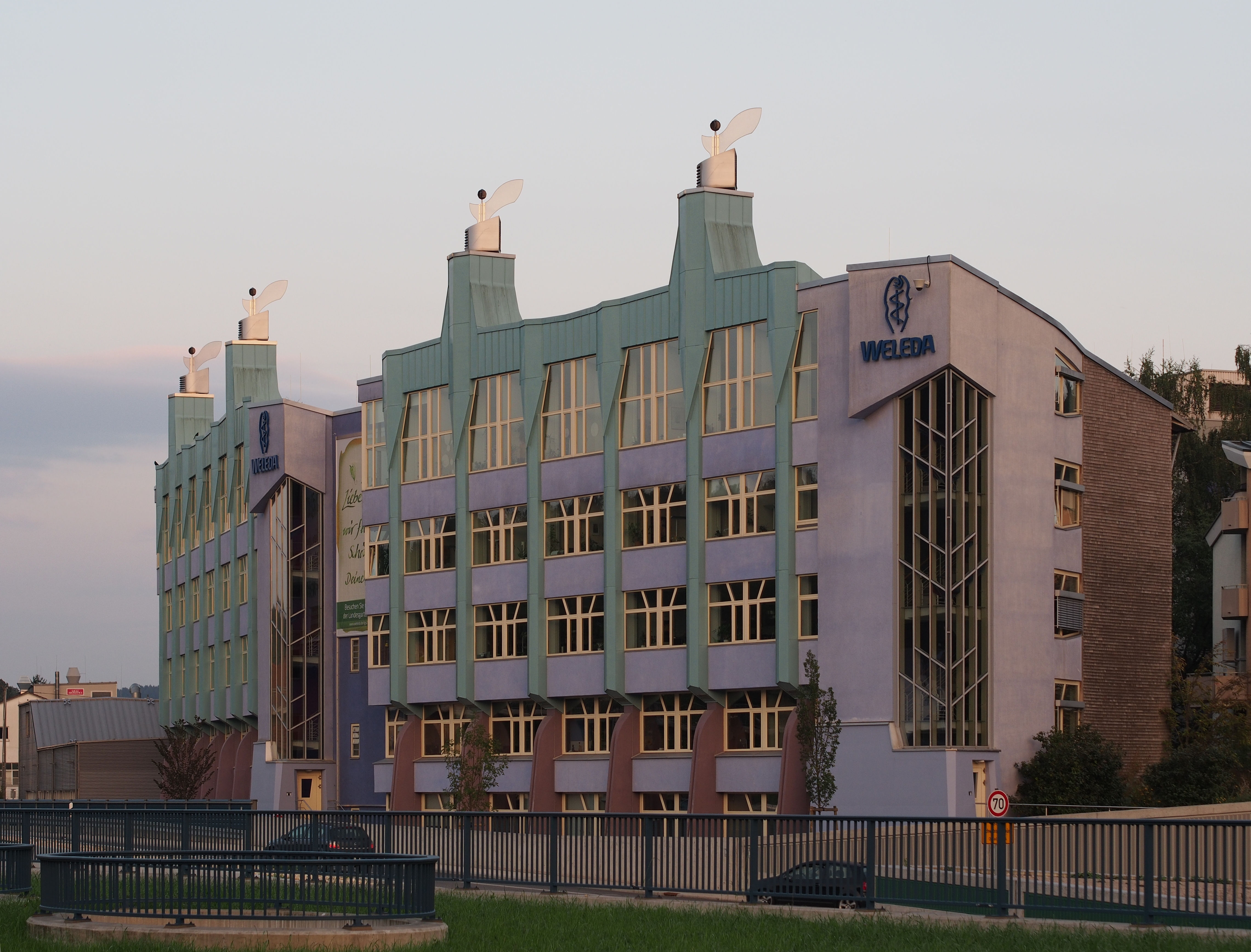 Weleda branch in Schwäbisch Gmünd